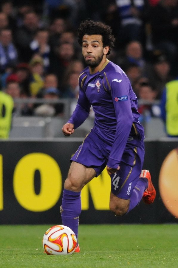 Mohamed Salah playing for ACF Fiorentina in an away match against Dynamo Kiev in UEFA Europa League on 16 April 2015